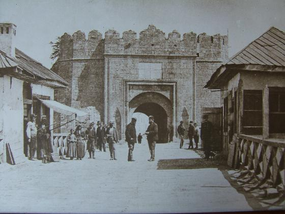 city of Nis, Serbia